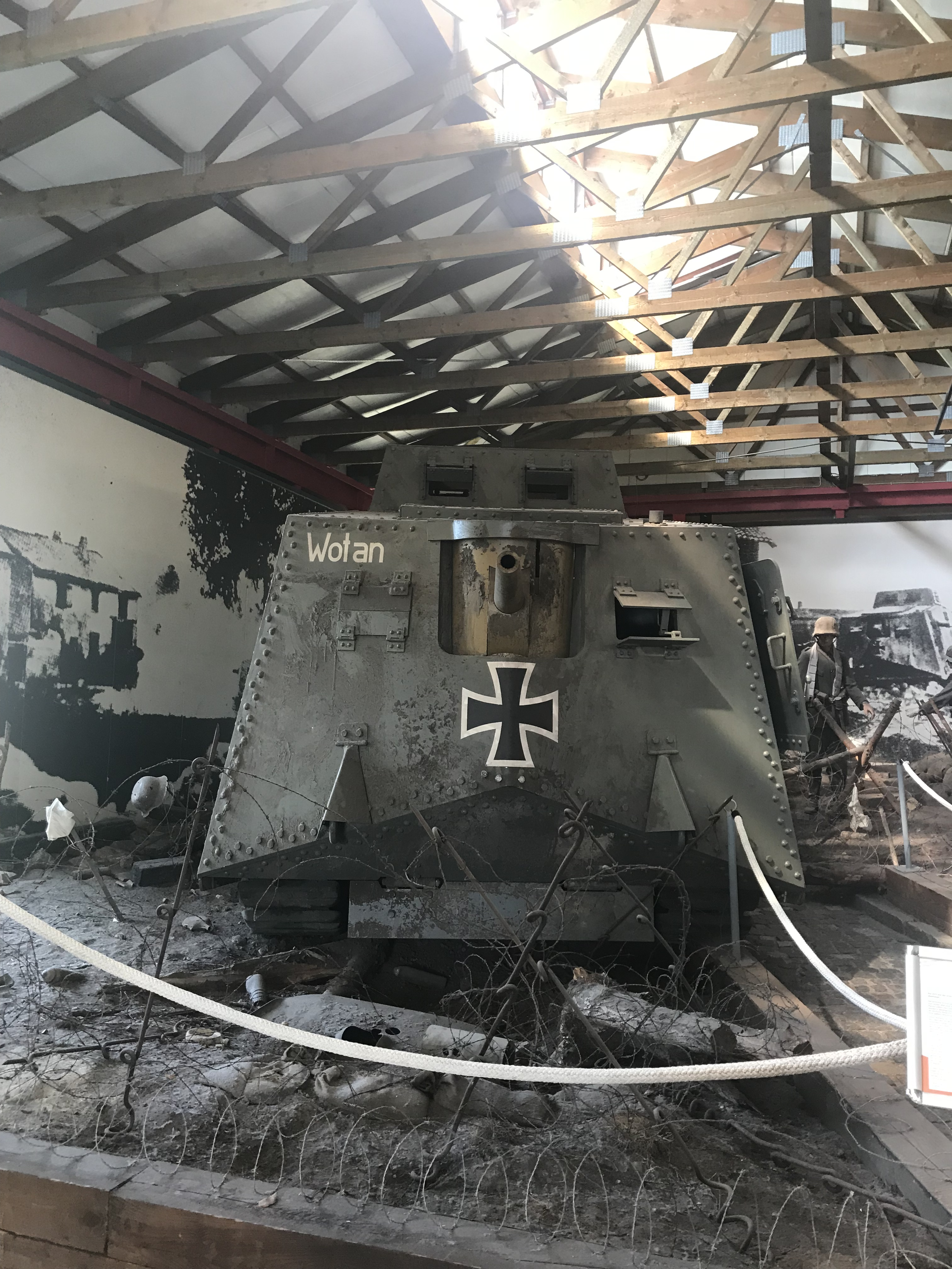 This is the A7V German First World War tank replica currently housed in the German Tank Museum in Munster.